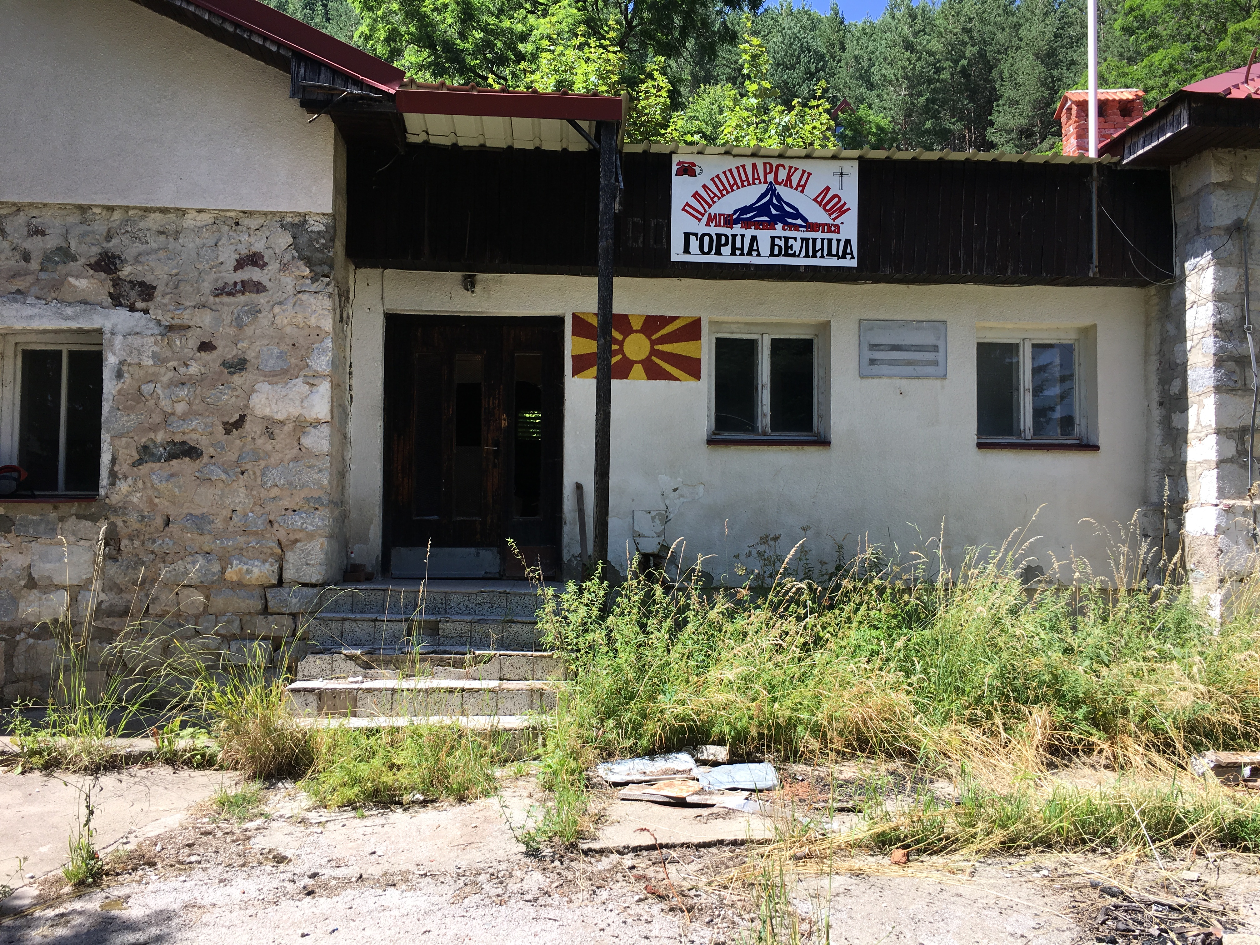 Mountain hut in the village of Gorna Belica